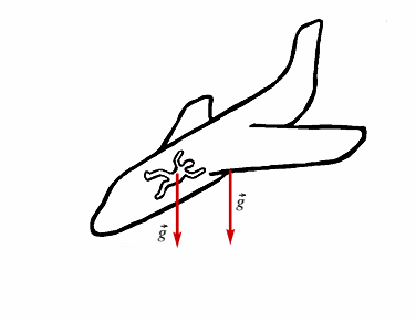 vetor avião